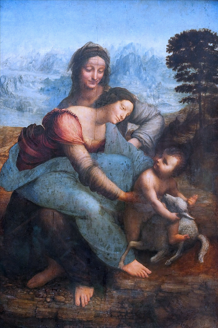 full view of the painting with particularly blue tones